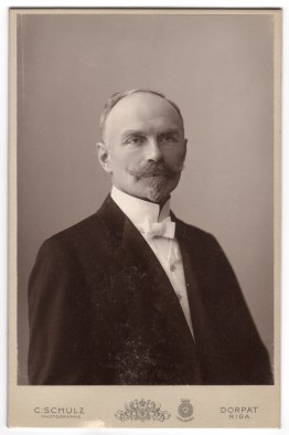 Fjodor Timofejevitš Tjulpin (1866-1942)